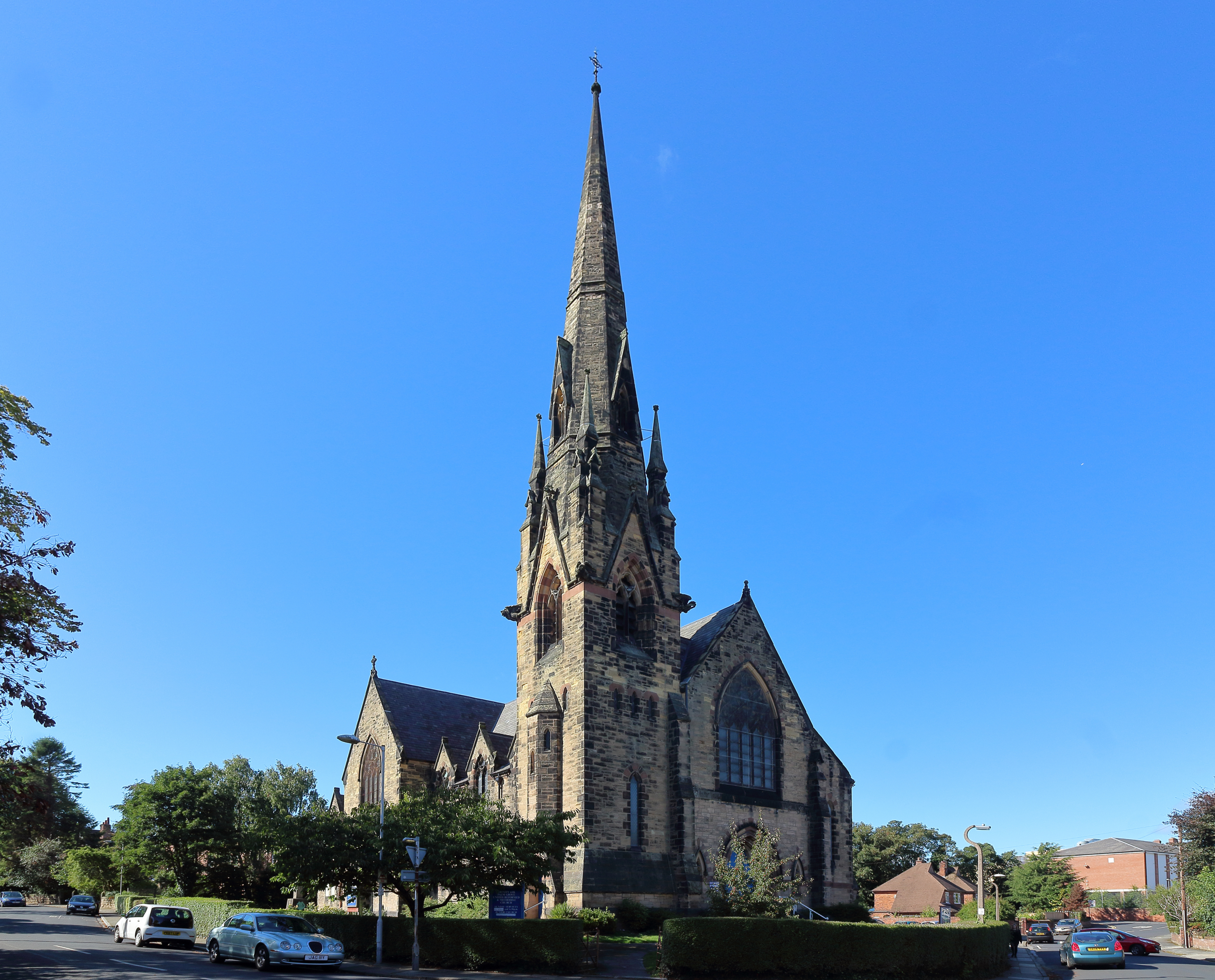 View from the southeast, corner of Alton Road/Beresford Road